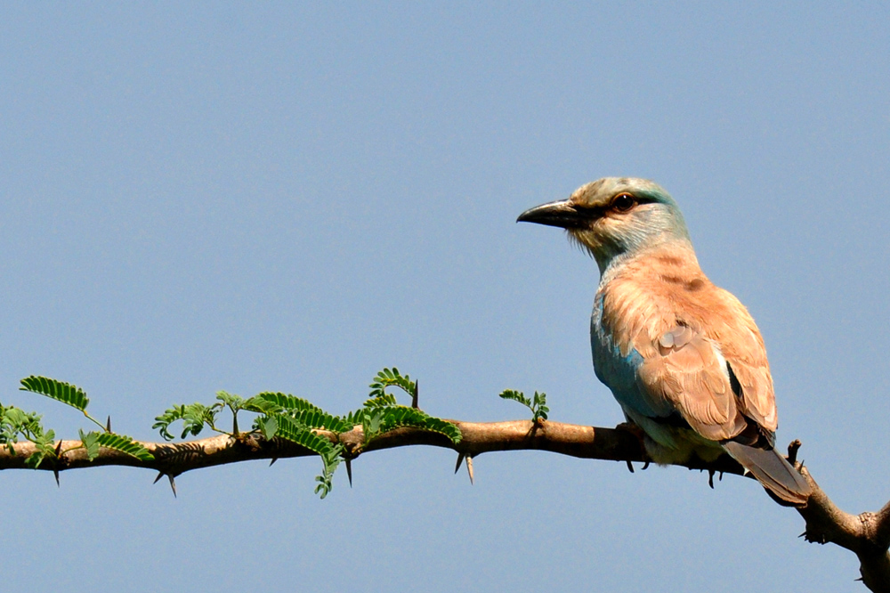 A lone European Roller was observed in Hessarghatta tank in South India in winter of 2012.